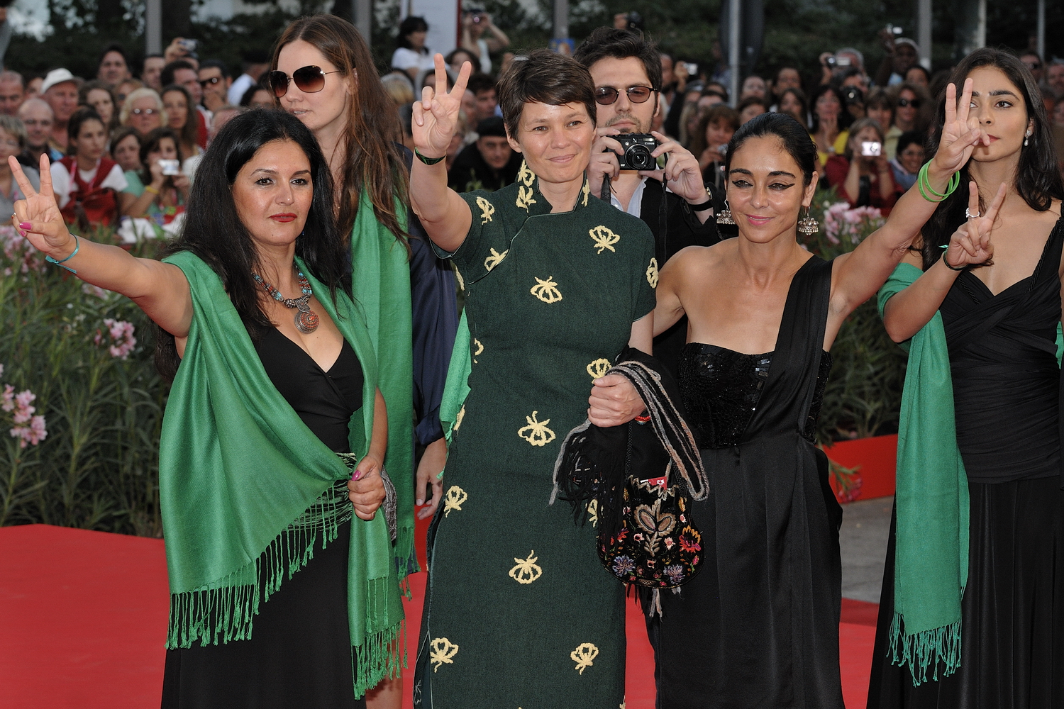 Director Shirin Neshat with friends at the Closing Ceremony photocall at the Palazzo del Casino during the 66th Venice Film Festival. From right to left: Pegah Ferydoni, Shirin Neshat, ...